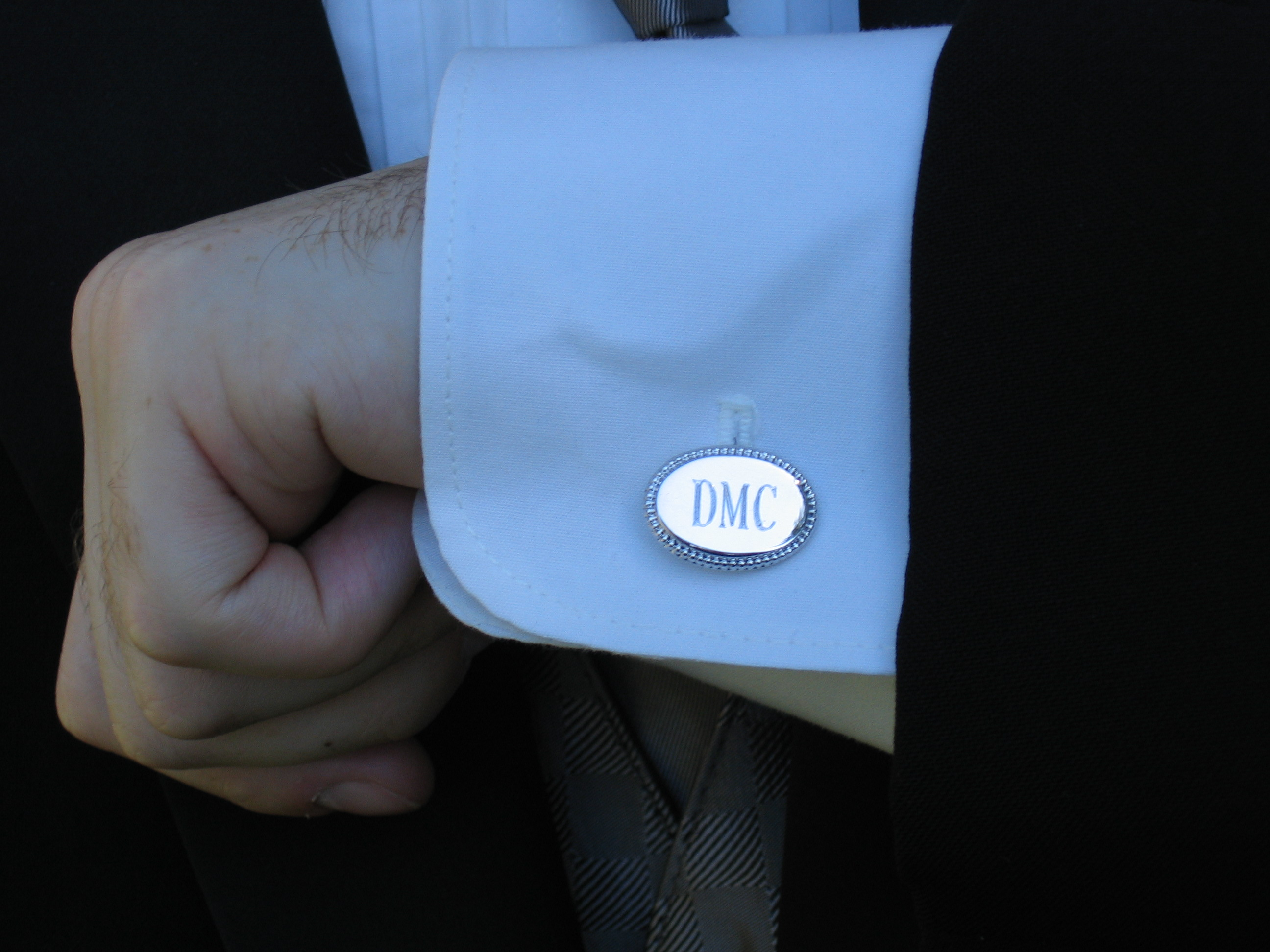 a customized cuff-link, aka cufflink, aka Manschettenknopf in German, I think